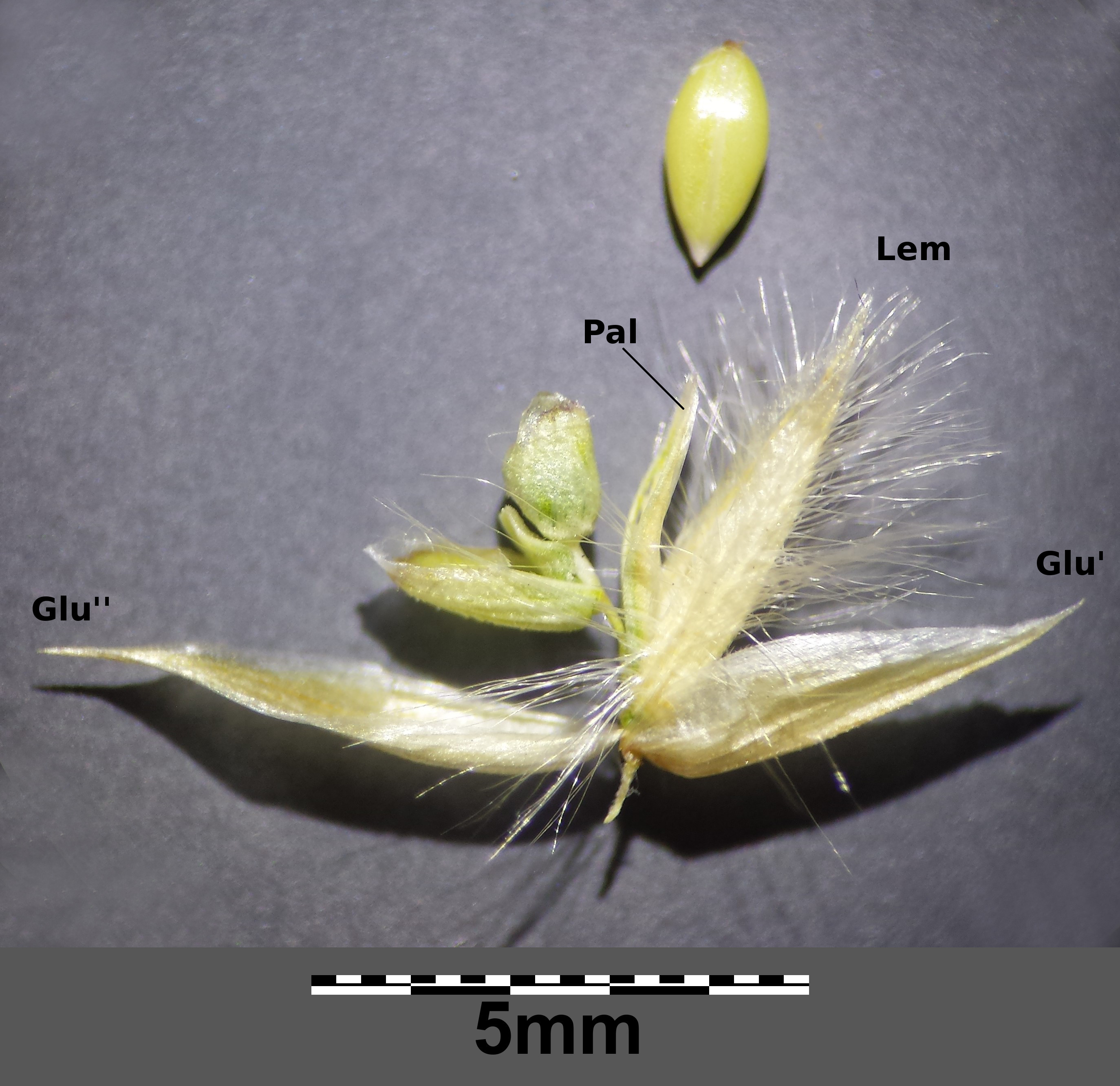 Spikelet Glu=Glumae Lem=Lemma Pal=Palea Taxonym: Melica ciliata subsp. ciliata ss Fischer et al. EfÖLS 2008 ISBN 978-3-85474-187-9 Location: Neue Donau, district Korneuburg, Lower Austria - ca. 160 m a.s.l. Habitat: stone area